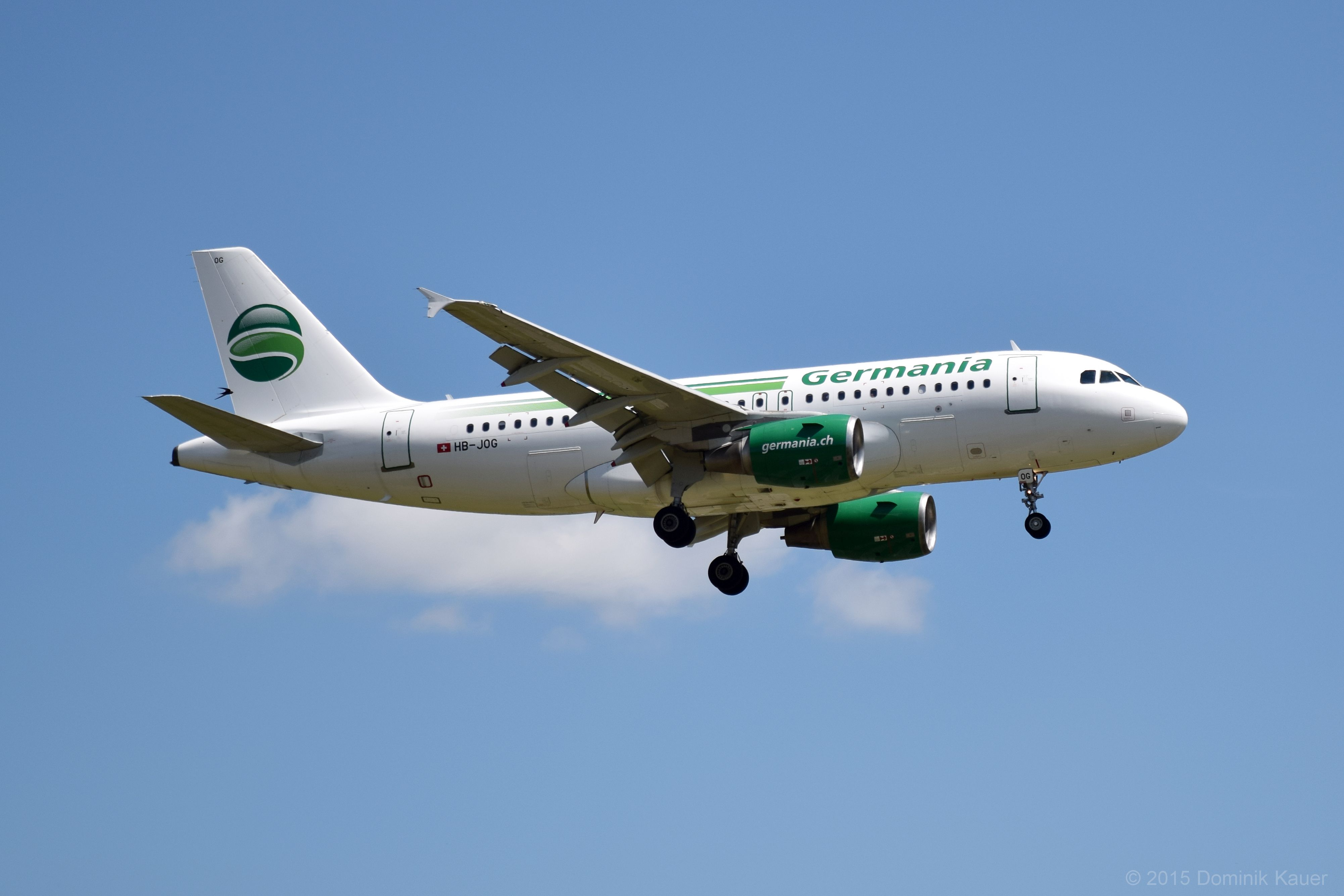 Holiday Jet Airbus A319-112 operated by Germania approaching at zurich airport